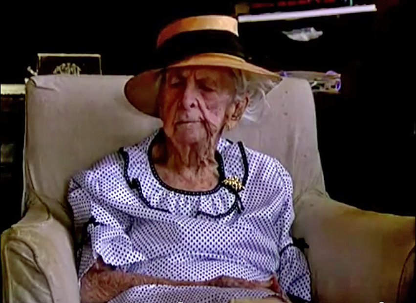 Marjory Stoneman Douglas at the age of 104, when we interviewed her for our documentary, Canary of the Ocean.